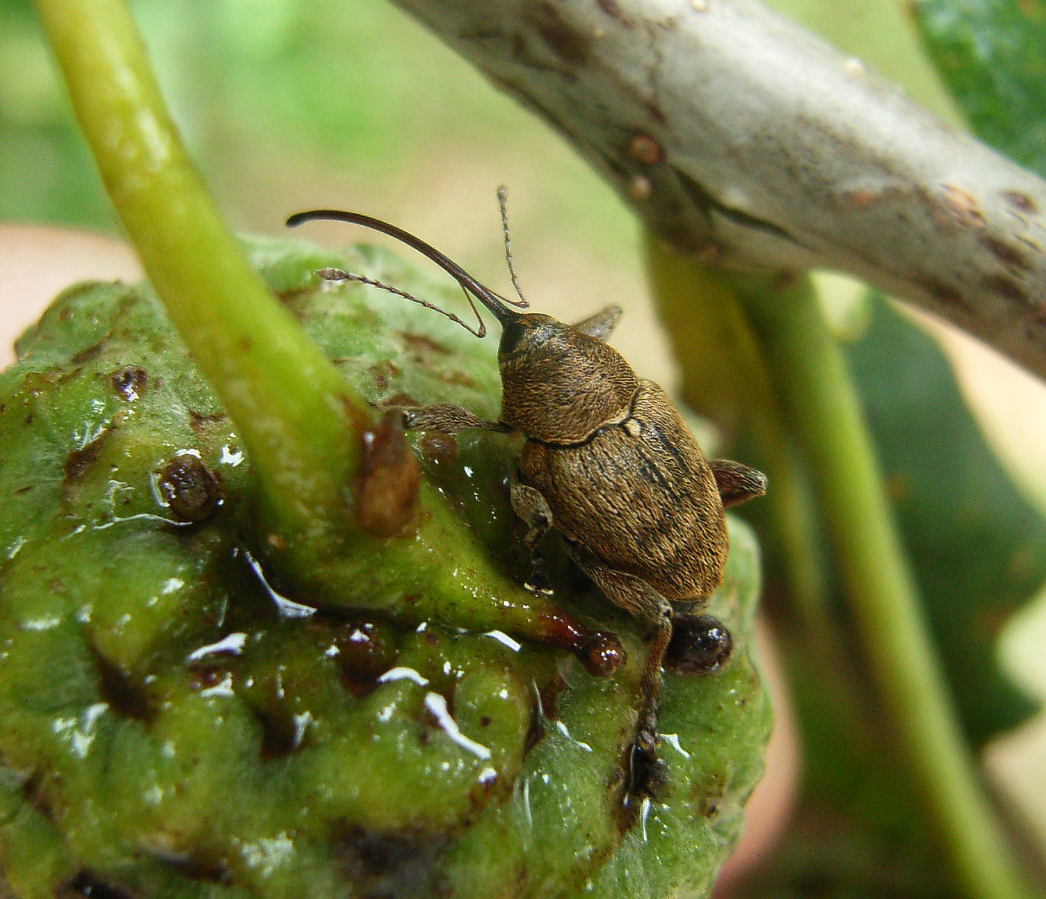 Acorn Weevil (Curculio glandium), Northwest Germany